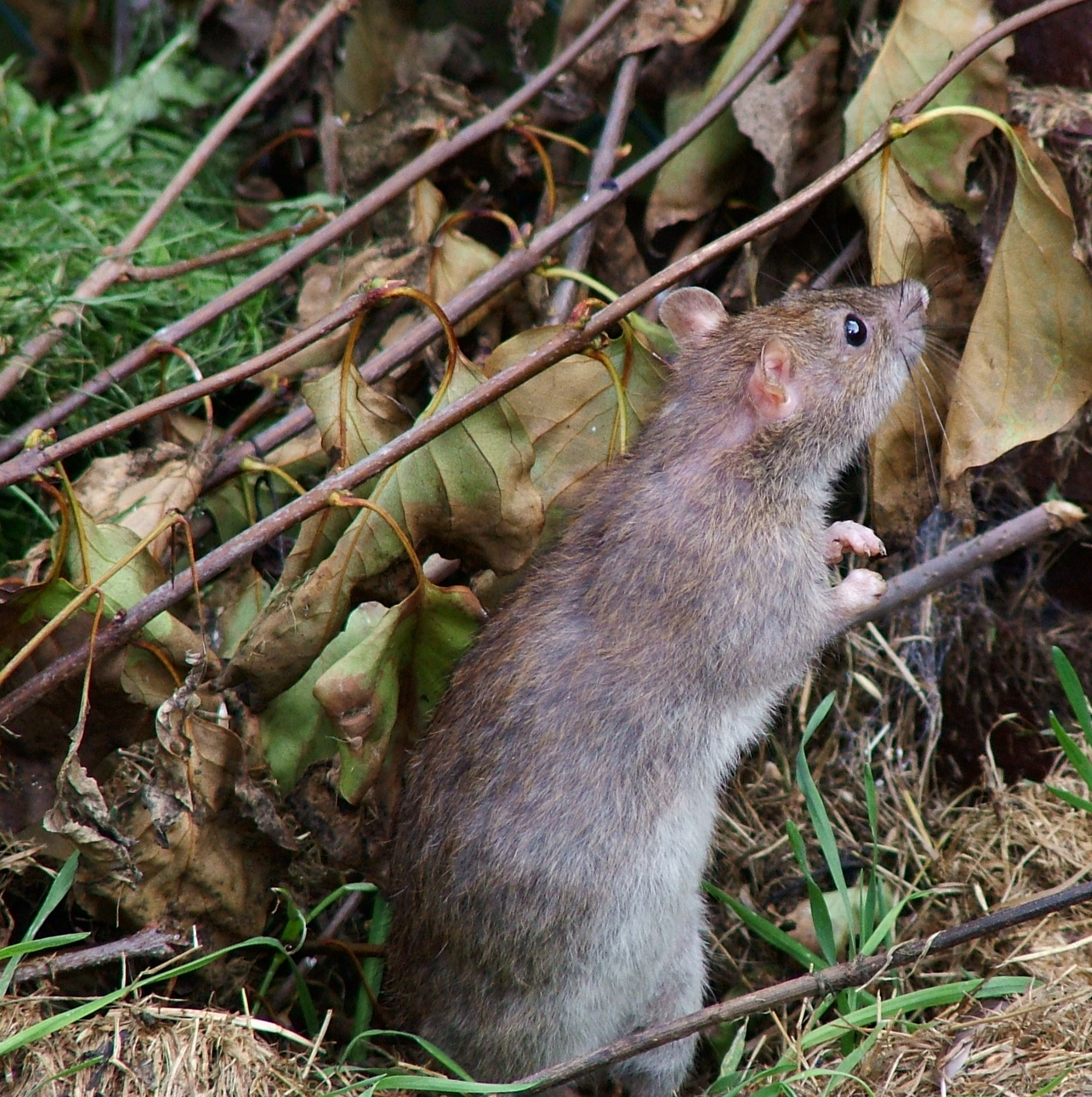 Wild rat